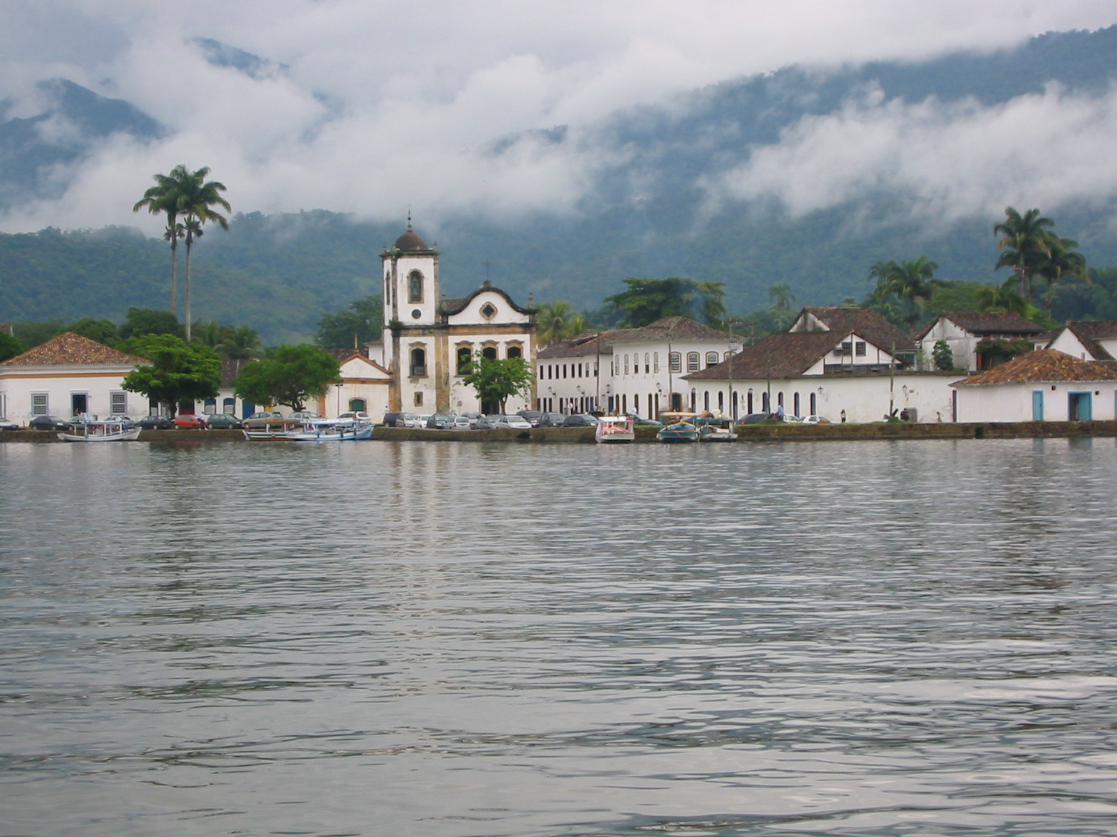 Paraty from the bay (Brazil).